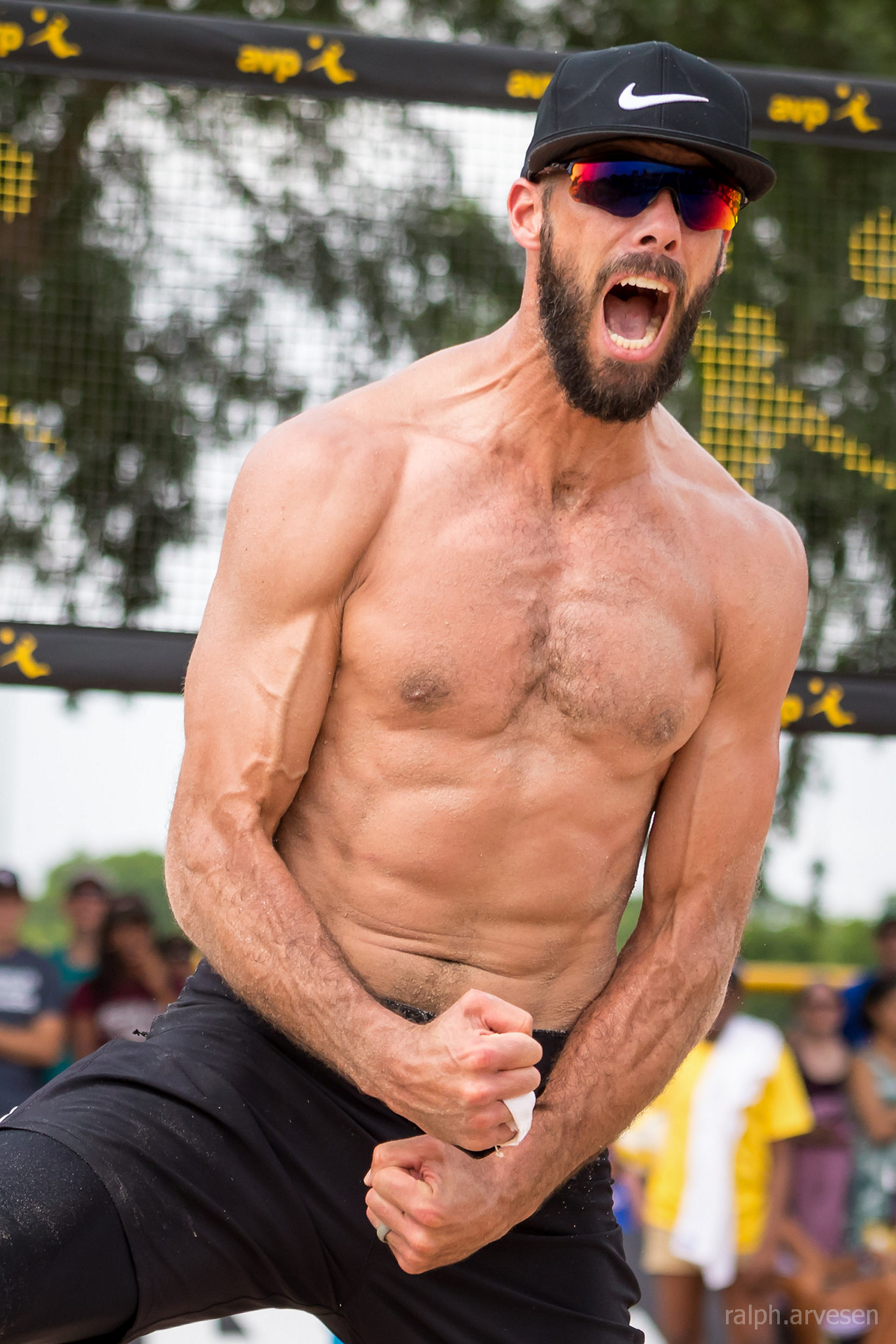 AVP Austin Open professional beach volleyball tournament in Austin, Texas on May 20, 2017.